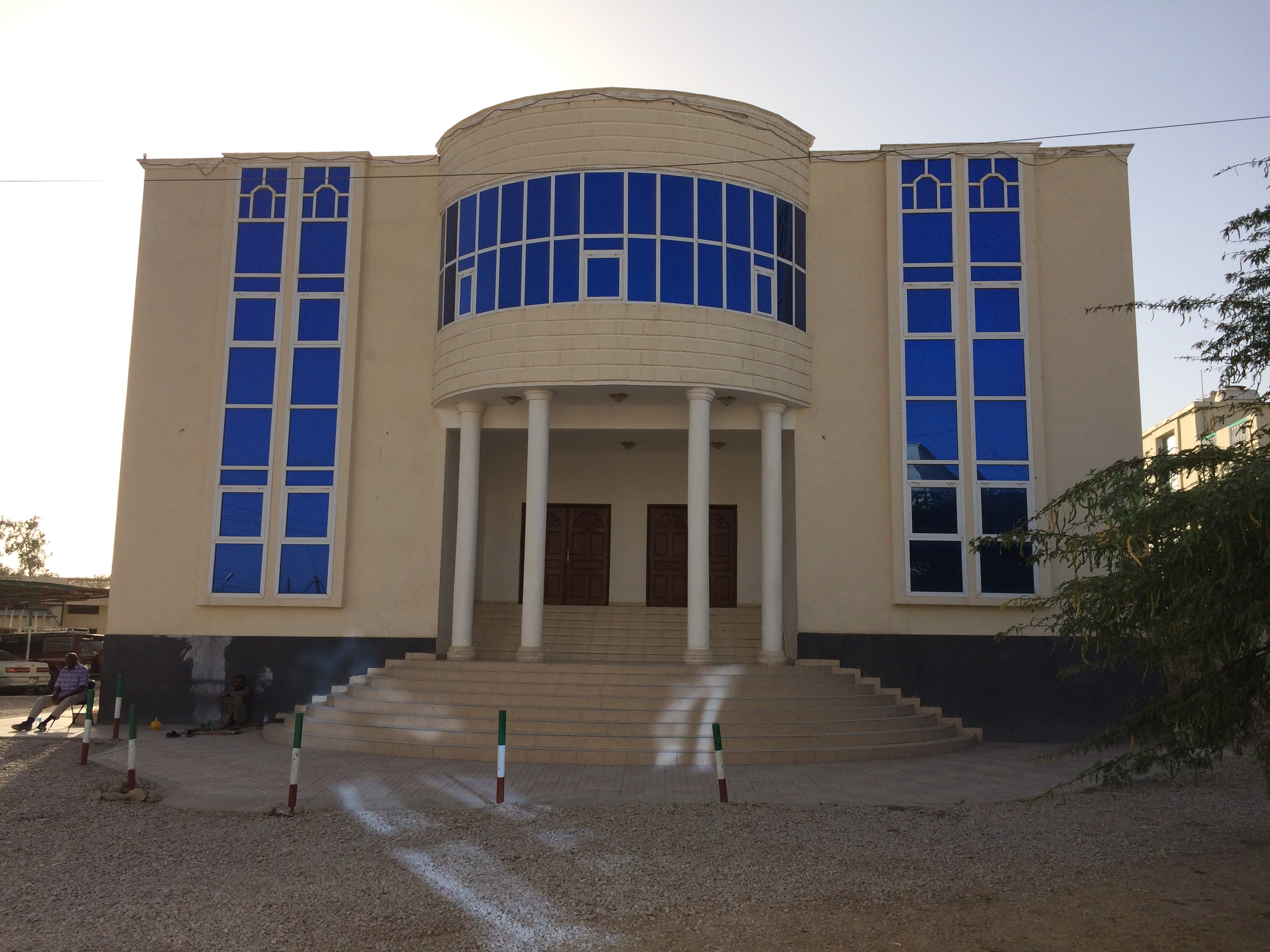 The House of Elders (Upper House of Parliament) in Hargeisa, capital of Somaliland (Somalia).